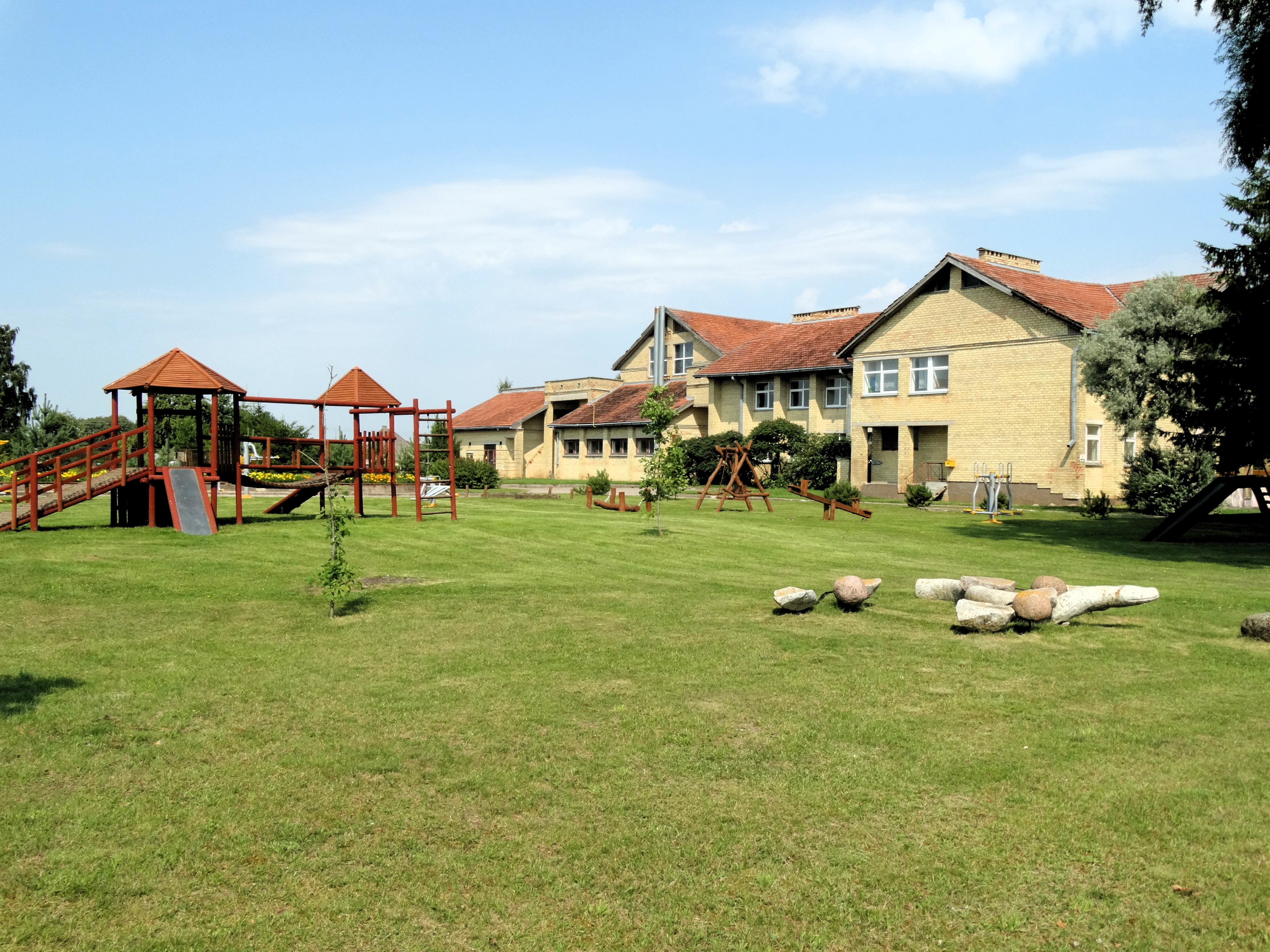 School, Gaižaičiai, Joniškis District, Lithuania